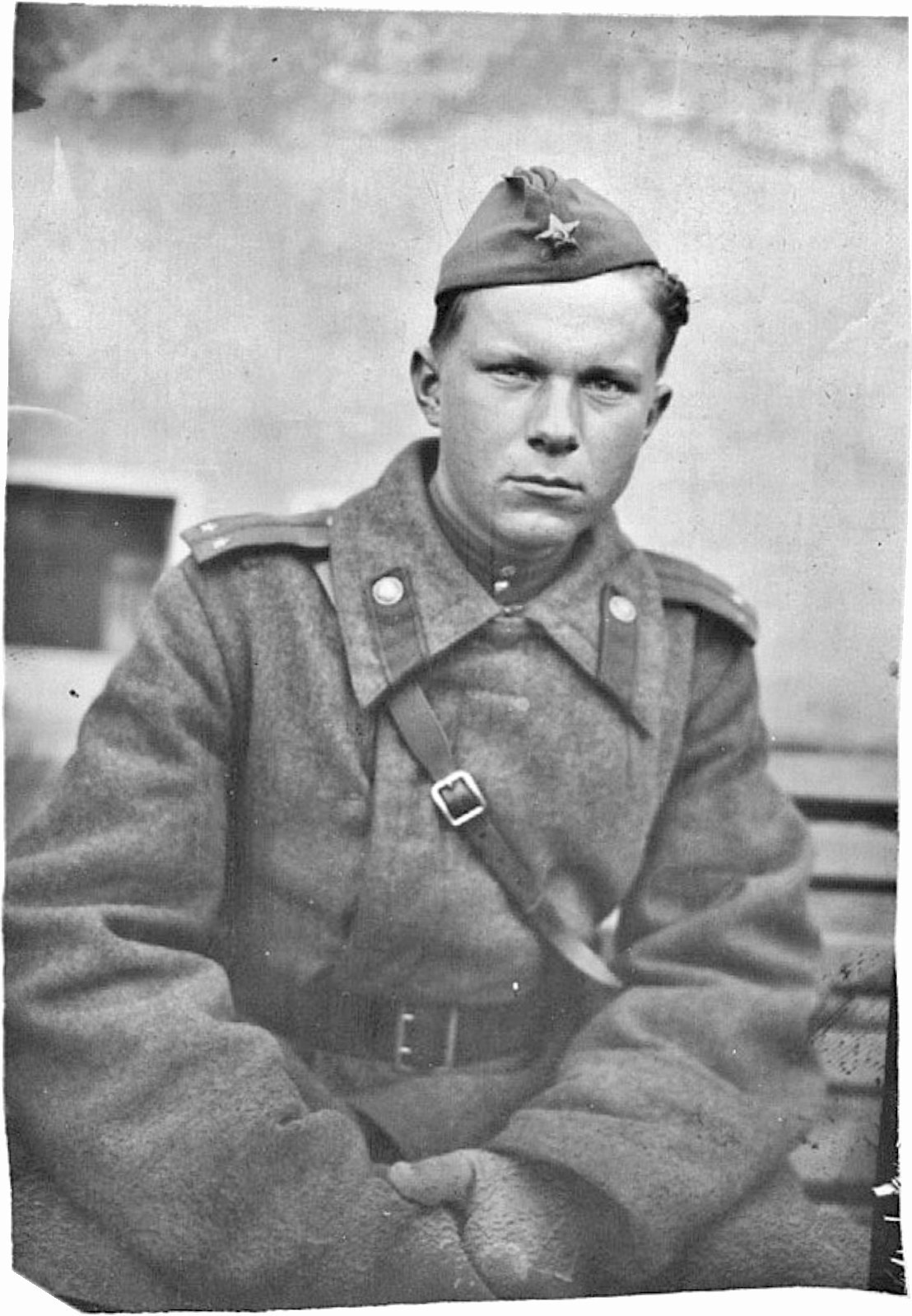 A photograph of the future Belarusian writer Vasil Bykov taken in Rumania in 1944.